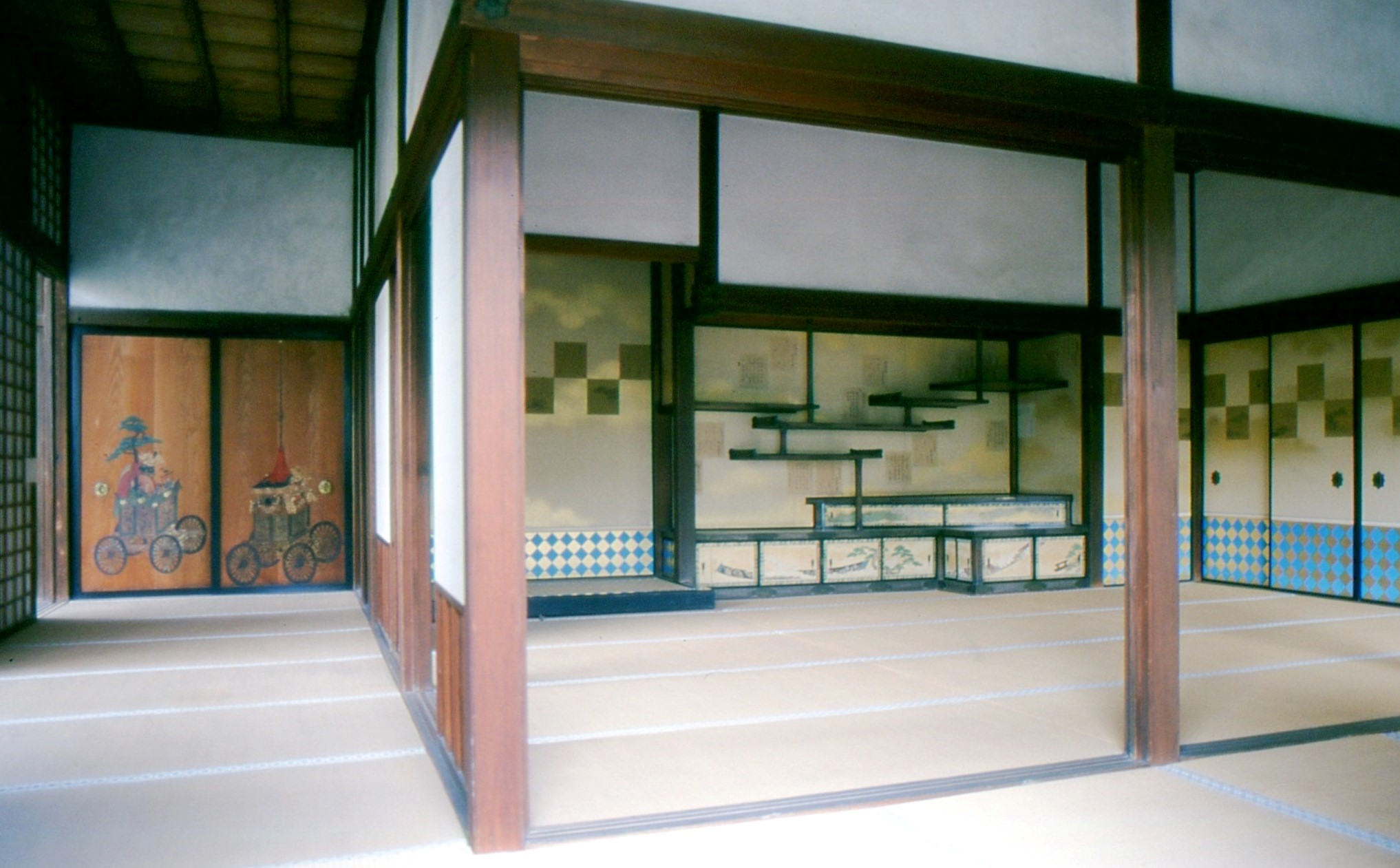 Shugaku-in Imperial Villa, Kiaku-den pavilion, 1677, rebuilt 1683